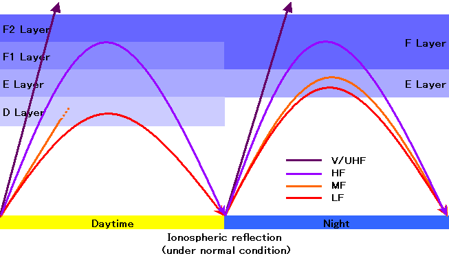 The difference of the ionosphere reflection in the daytime and the night（Frequency band distinction）